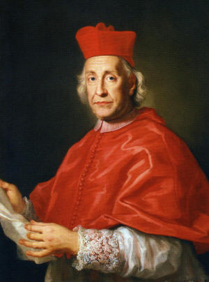 Cardinal Lorenzo Corsini, at a later date Pope Clement XII